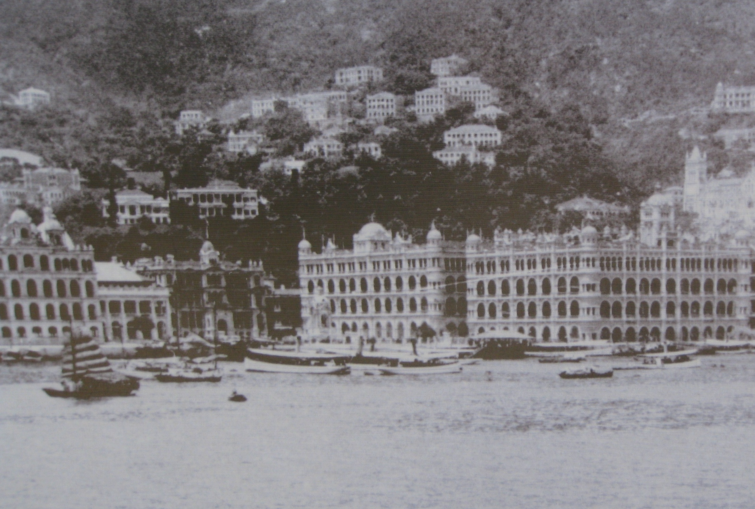 Central in Hong Kong, circa 1910, View from Victoria Harbour. Cropped version zooming on Statue Square